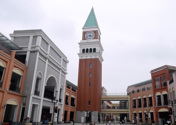 Times Outlet, Ningxiang